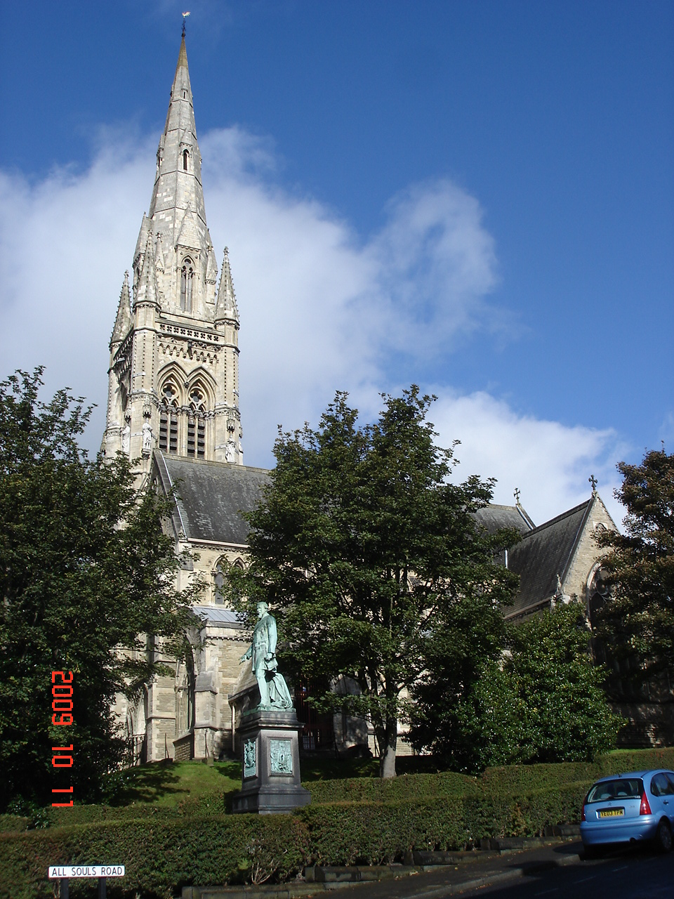 All Saints church, Halifax, designed by Sir Gilbert Scott for Edward Ackroyd, whose statue stands in the foreground.